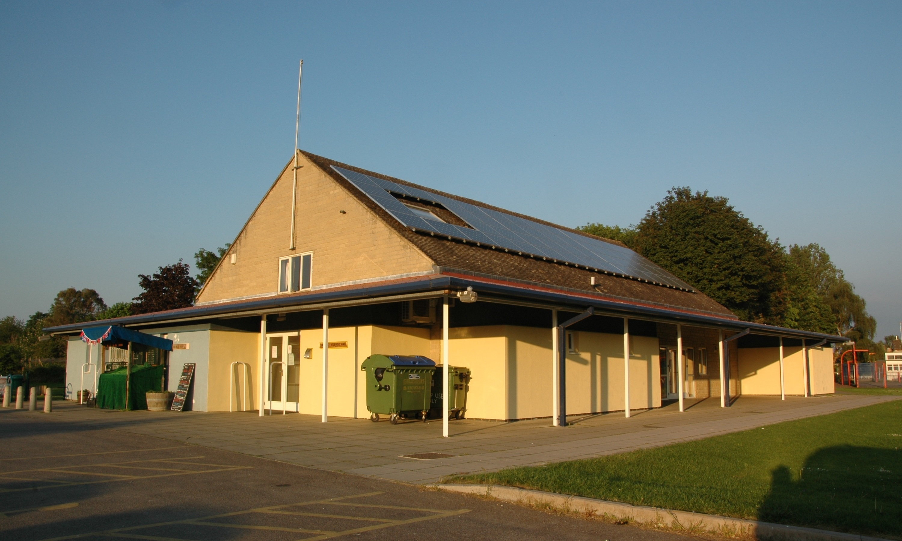 Village Hall, shop and Post Office, Tackley, Oxfordshire, England